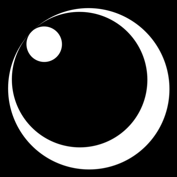 Crest of Chiba-clan